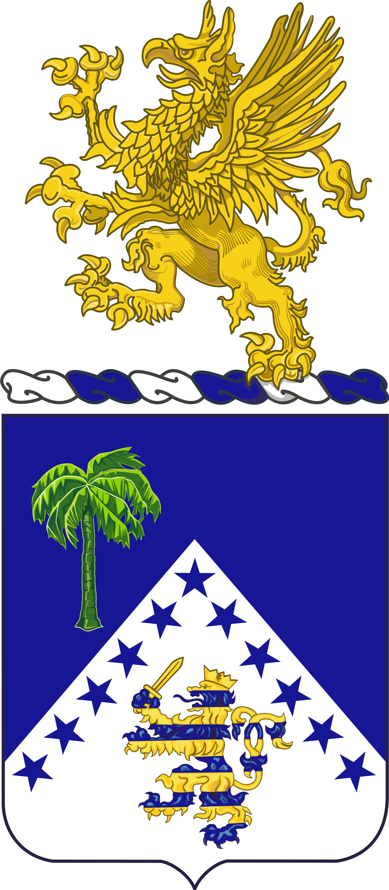 Description/Blazon Shield Per chevron Azure and Argent, in dexter chief a palm tree Proper and in base in chevron eleven mullets of the first above a crowned lion rampant berry of ten Or and of the first, in dexter paw a sword of the fourth. Crest That for regiments and separate battalions of the Michigan Army National Guard: From a wreath Argent and Azure a griffin sergeant Or. Motto YIELD TO NONE. Symbolism Shield The shield is blue and white to difference it from the former coat of arms of the 125th Infantry Regiment, parent organization, now redesignated for the 425th Infantry Regiment, Michigan National Guard. The palm tree, eleven mullets (stars), and the crowned lion?all charges taken from this coat of arms?are applicable to the organization's historical background. The palm tree represents service at Santiago during the Spanish-American War, and the eleven mullets are for Civil War service. The crowned lion taken from the Arms of Hesse symbolize the organization's entrance into Germany during World War I. Crest The crest is that of the Michigan Army National Guard. Background The coat of arms was approved on 13 March 1952.